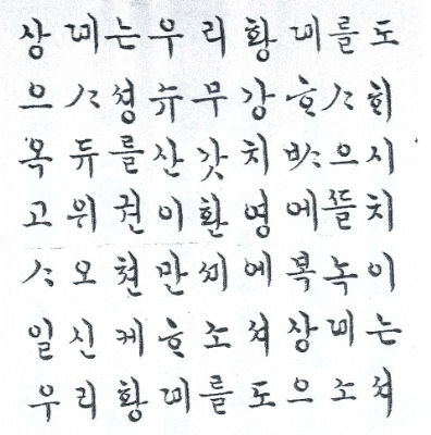 Original Lyrics of Nation Anthem of the Korean Empire